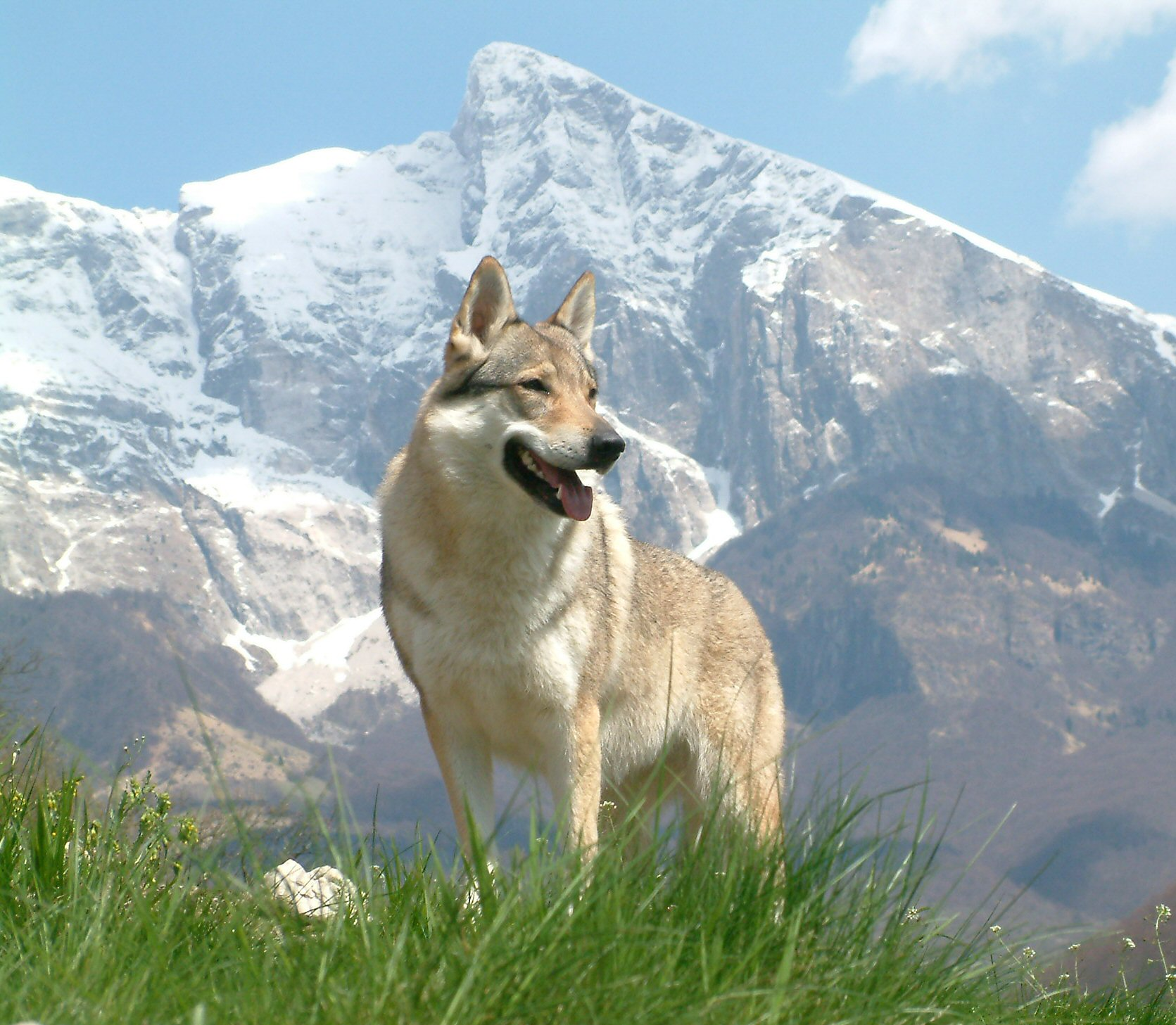 Czechoslovakian Wolfdog made by Margo Peron